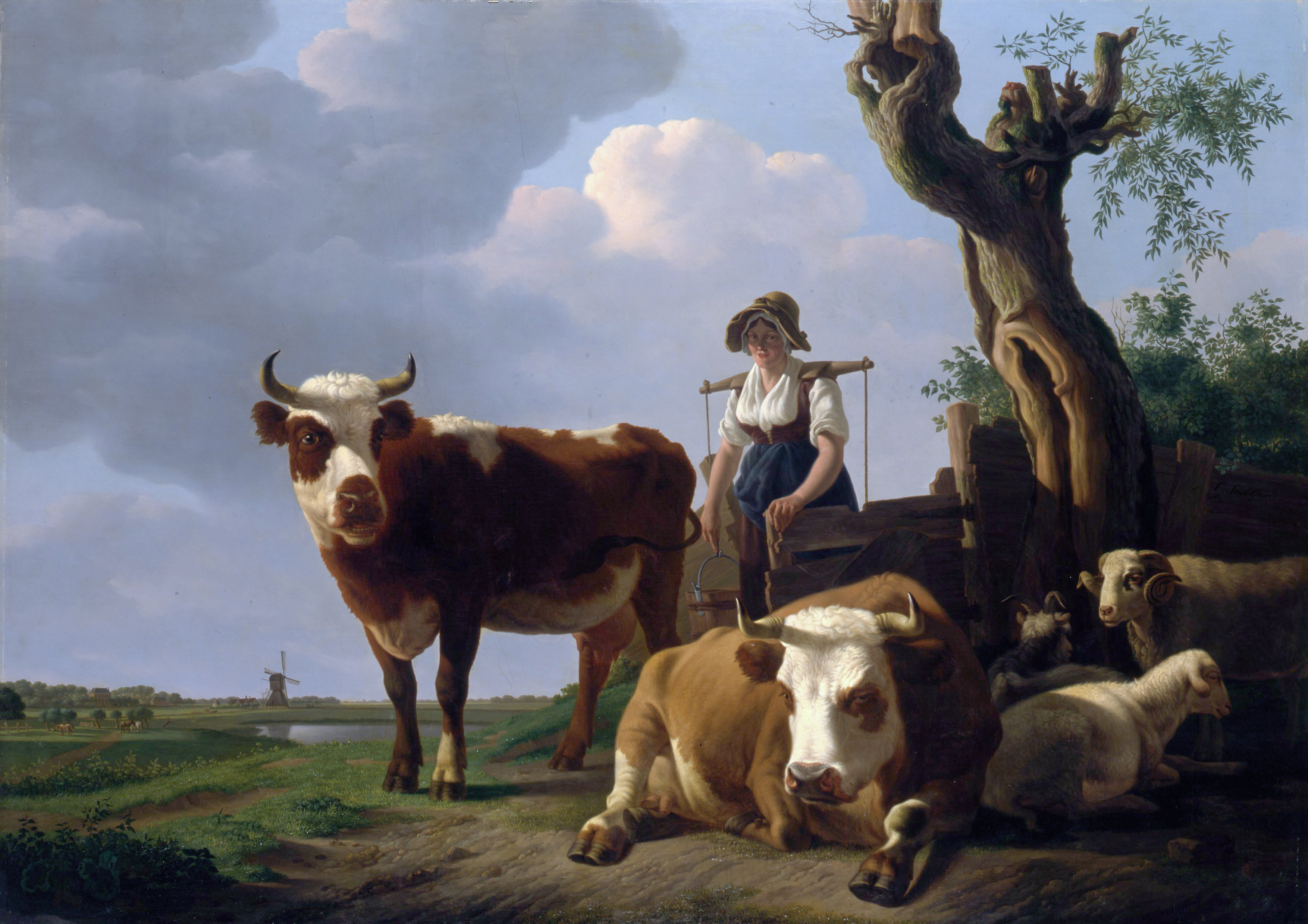 Landscape with cattle and country seat Weizigt in the distance oil on canvas 127 x 170 cm signed c.r.: G:Smak Gregoor